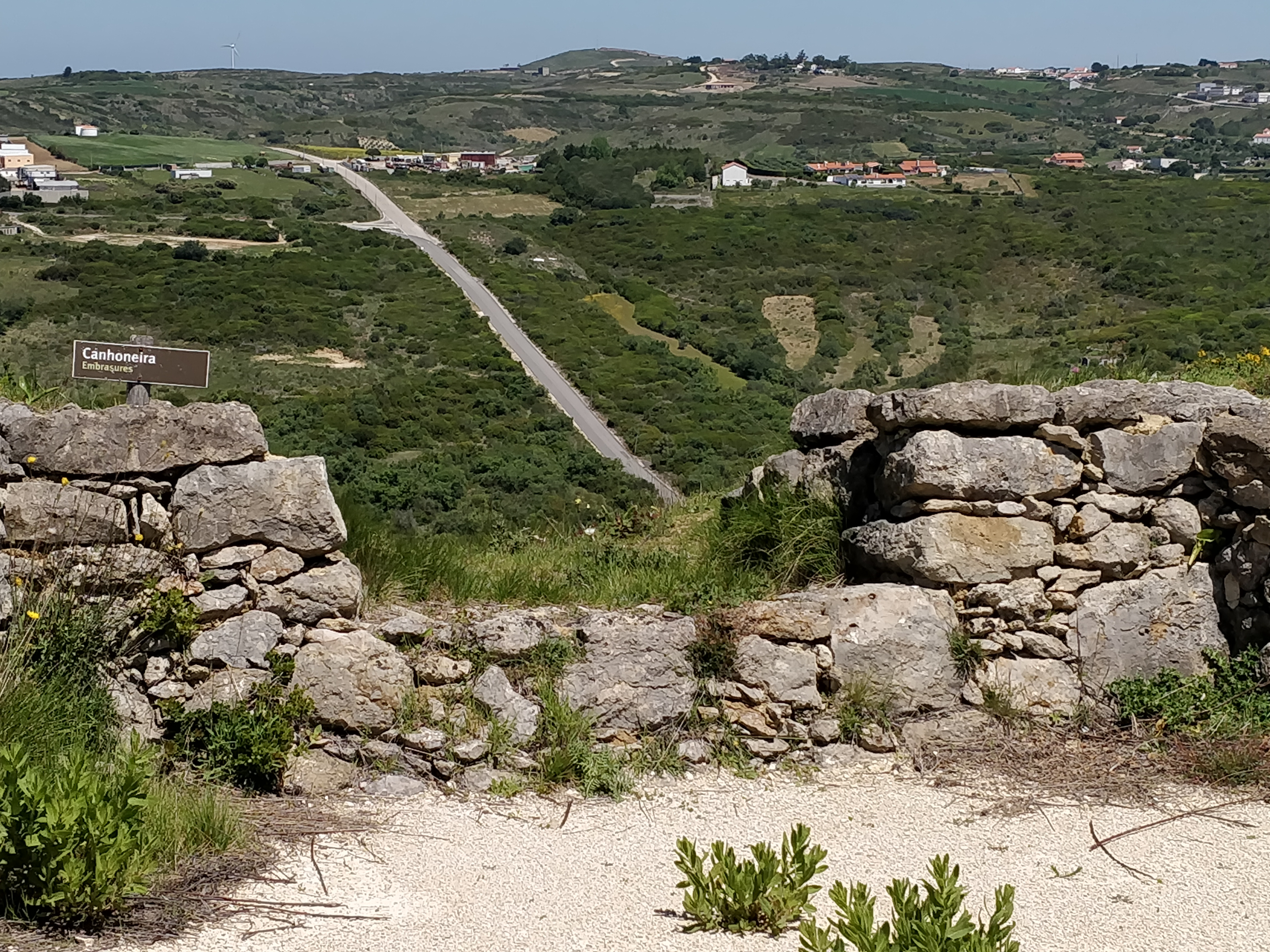 Fort of Ajuda Grande, one of the Lines of Torres Vedras forts, situated near Bucelas to the north of Lisbon, Portugal